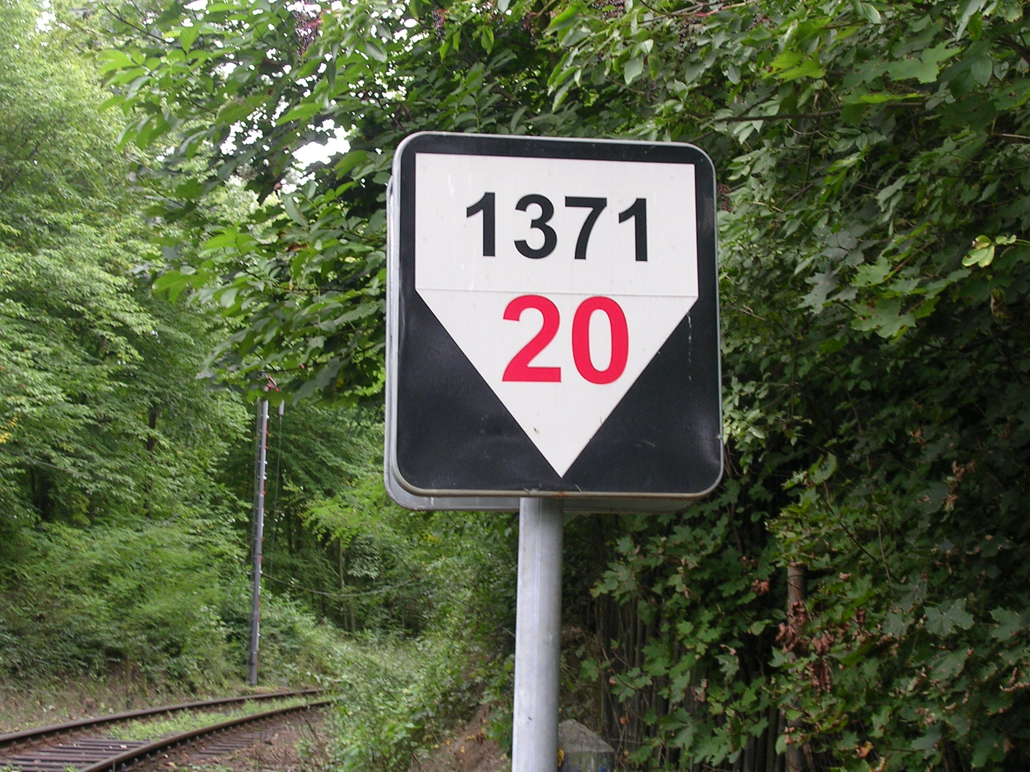 Railway gradient marker: 2% (1 in 50) falling for 1371 m. Near Jílové u Prahy, Czech Republic.